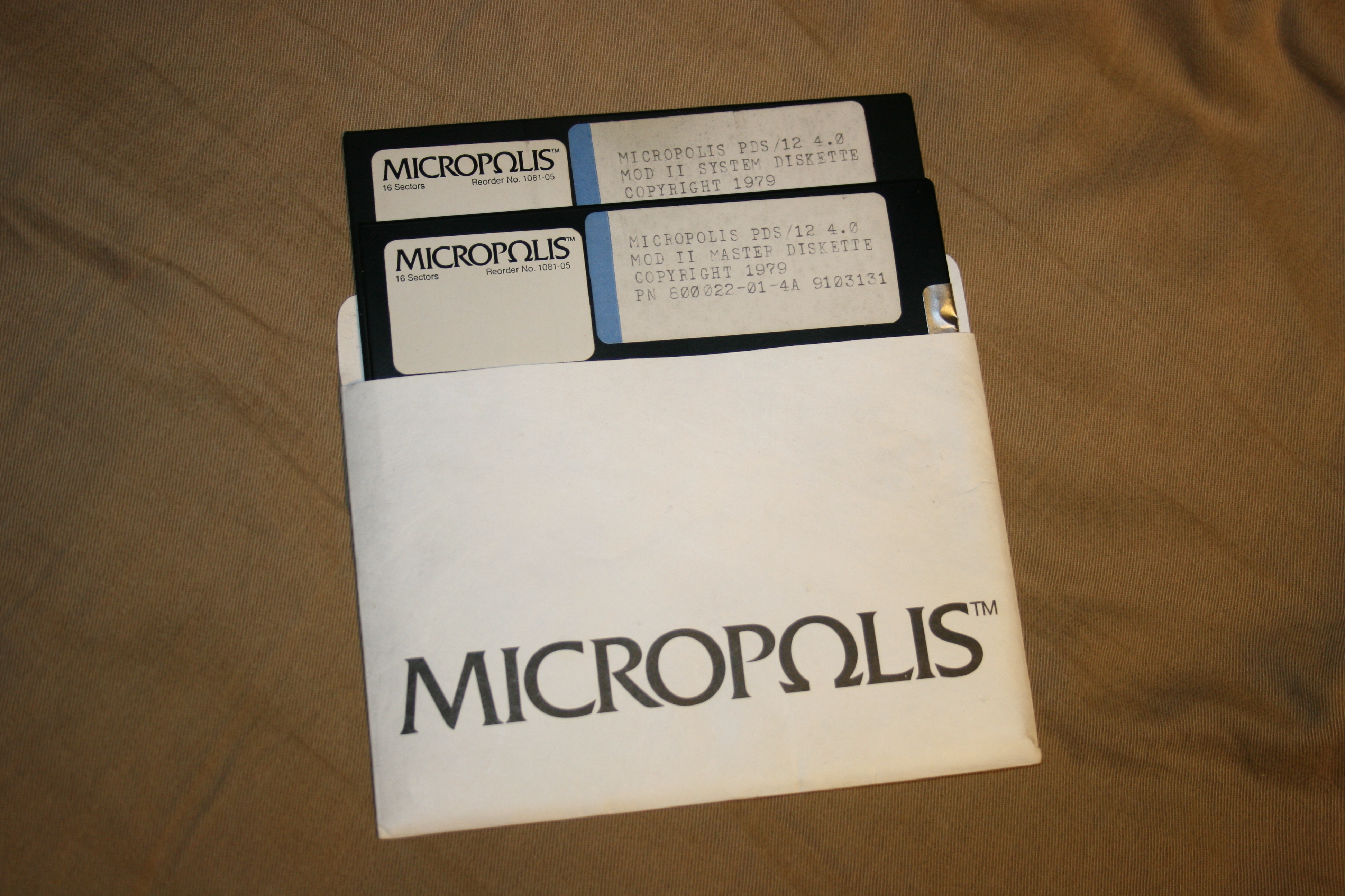 Micropolis boot diskette, as used with the micropolis dual 5.25 drive to boot an IMSAI 8080. Note the characteristic Micropolis logo.